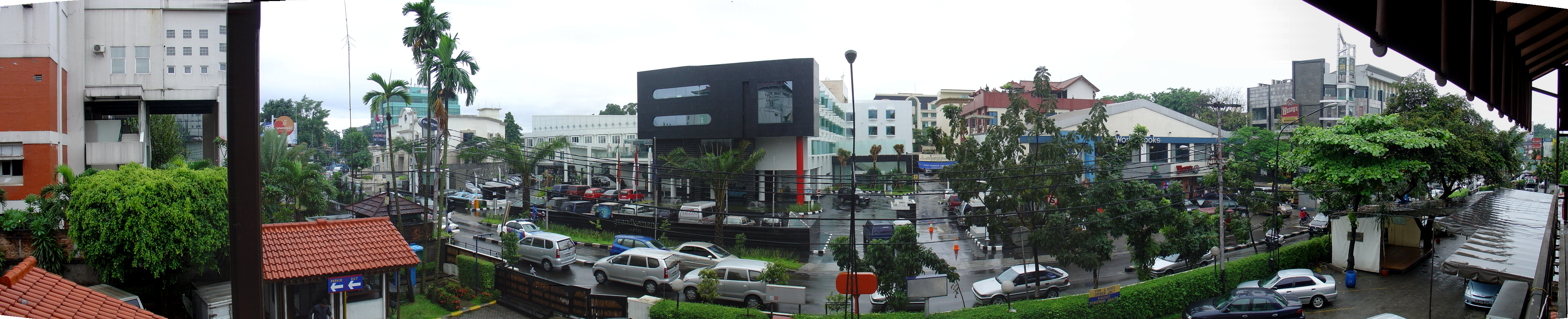 Kemang Raya Road seen from what is then Kem Chick shopping center.